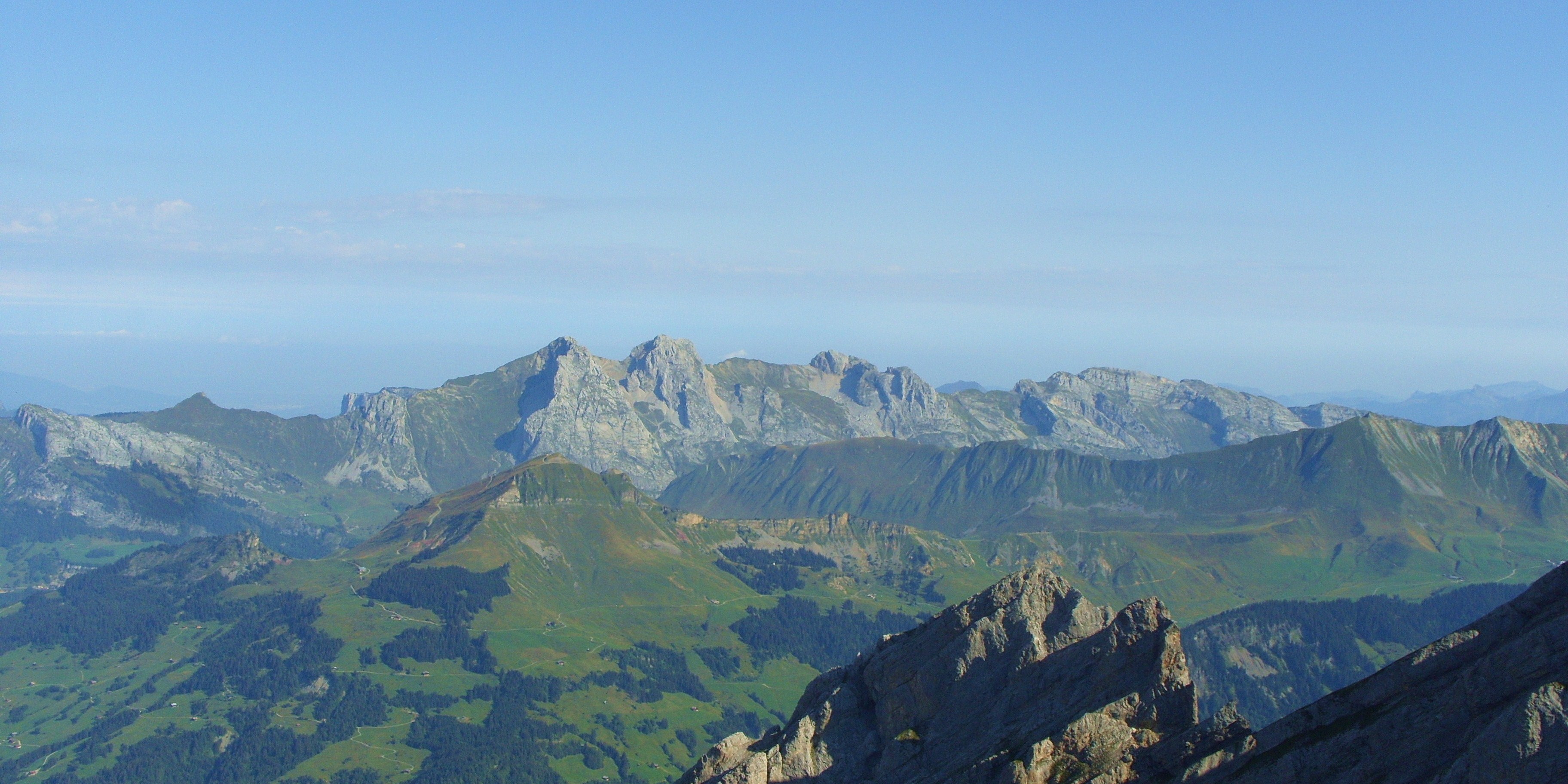 The Bargy chain in the background